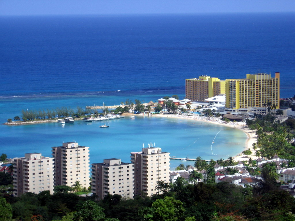 View of Ocho Rios Glenn Standish